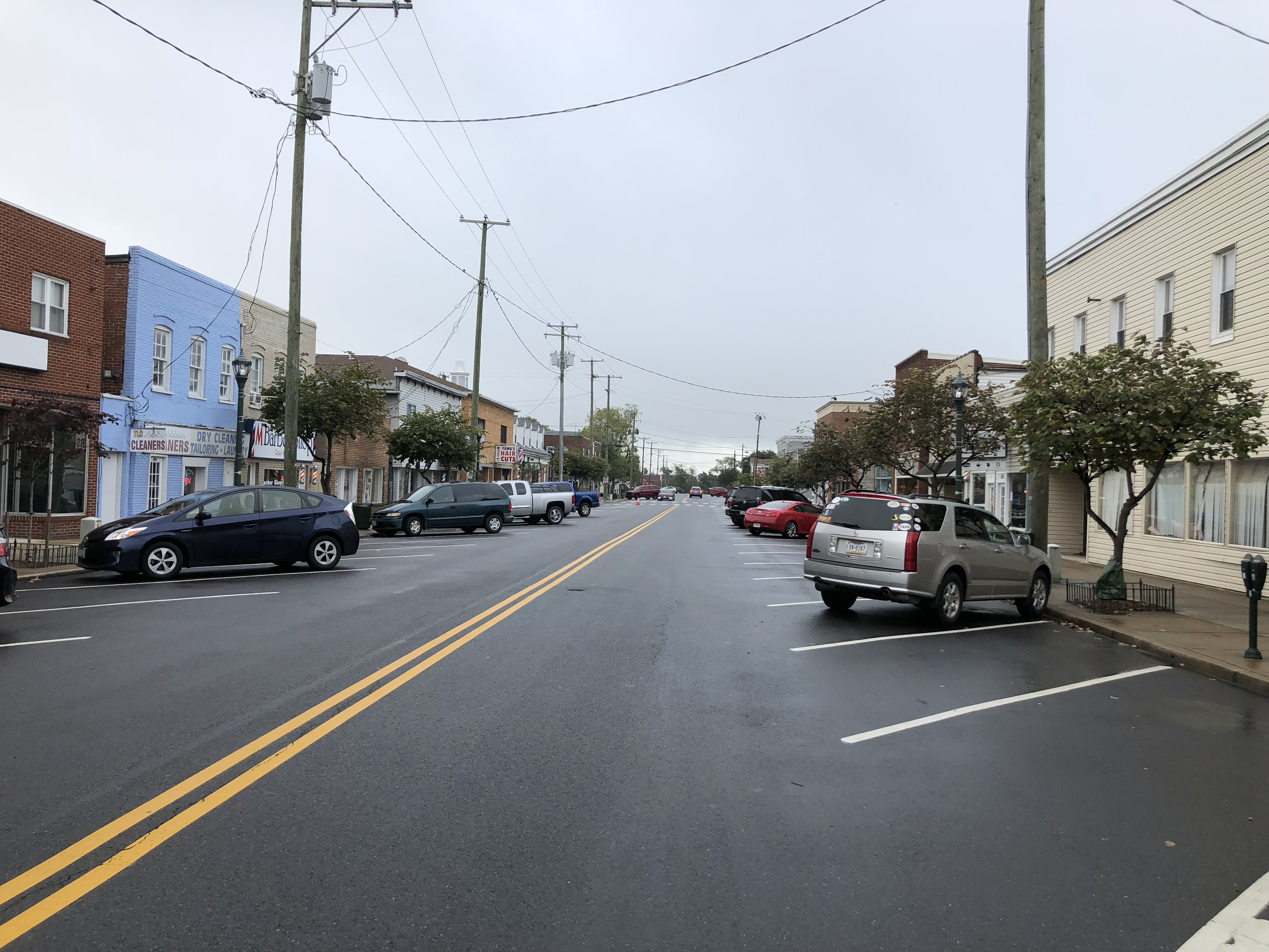 View southeast along Potomac Avenue at C Street in Quantico, Prince William County, Virginia